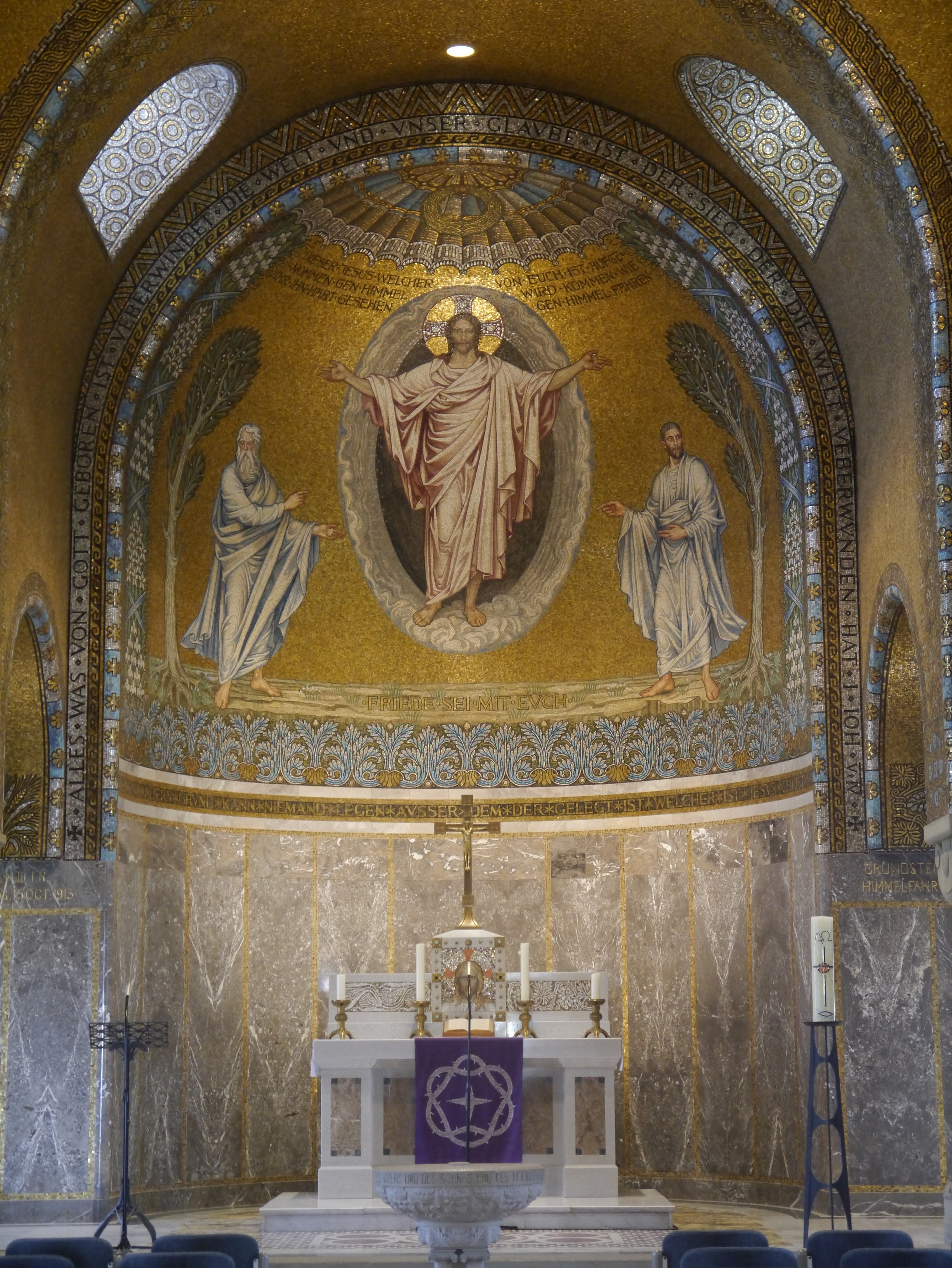 Choir of the Church of Our Saviour, Gerolstein